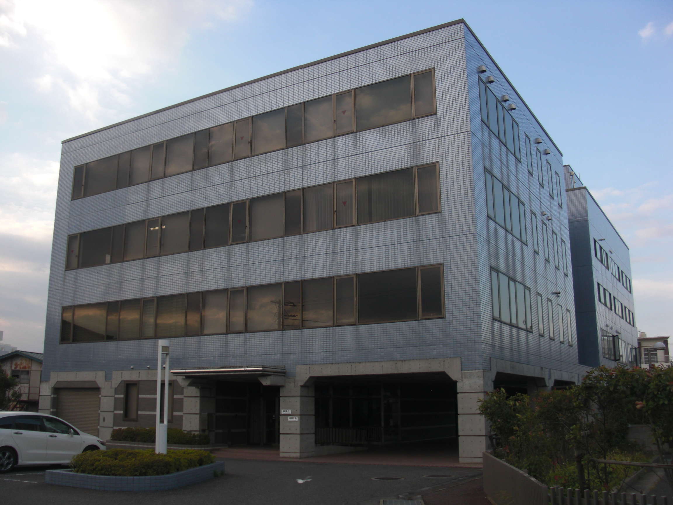 This is the Kisarazu Legal Affairs General Building, which is located in Kisarazu, Chiba, Japan.